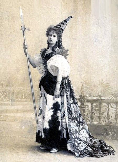 The ballerina Olga Leonova in her act III costume as the Spirit of Curiosity in the choreographer Marius Petipa and the composer Pyotr Schenk's ballet "Barbe-bleue" ("Bluebeard").